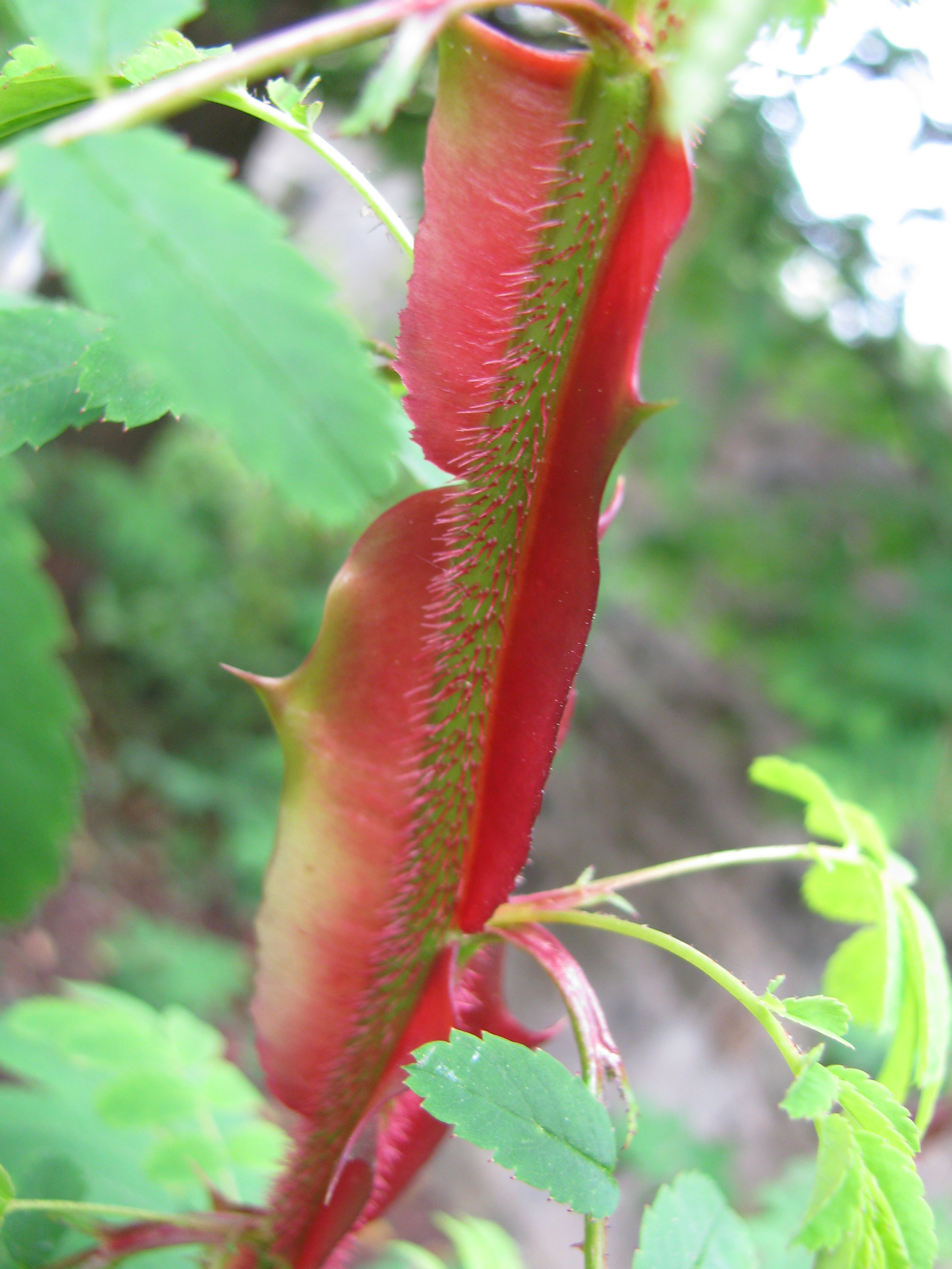 The thorn of a Wingthorn Rose.